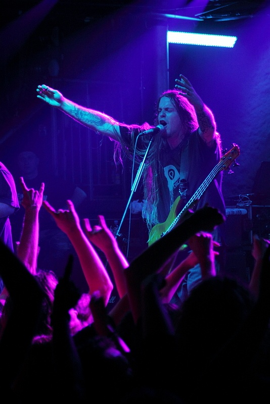 Chris Lollis of Nile, Katowice, Mega Club, 20.01.2011